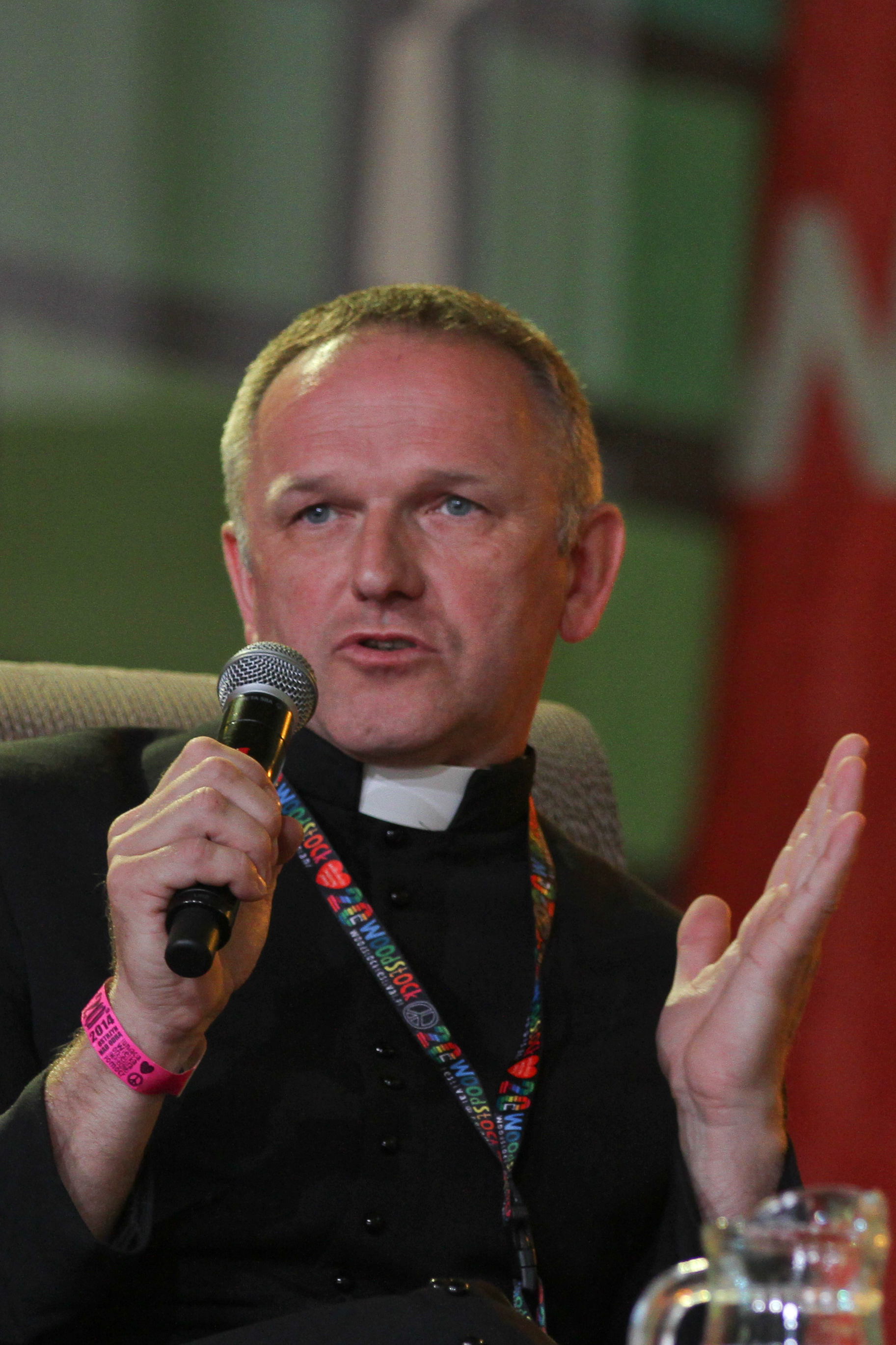 Przystanek Woodstock 2014.